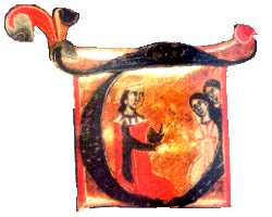 From BNF 854, folio 192v.